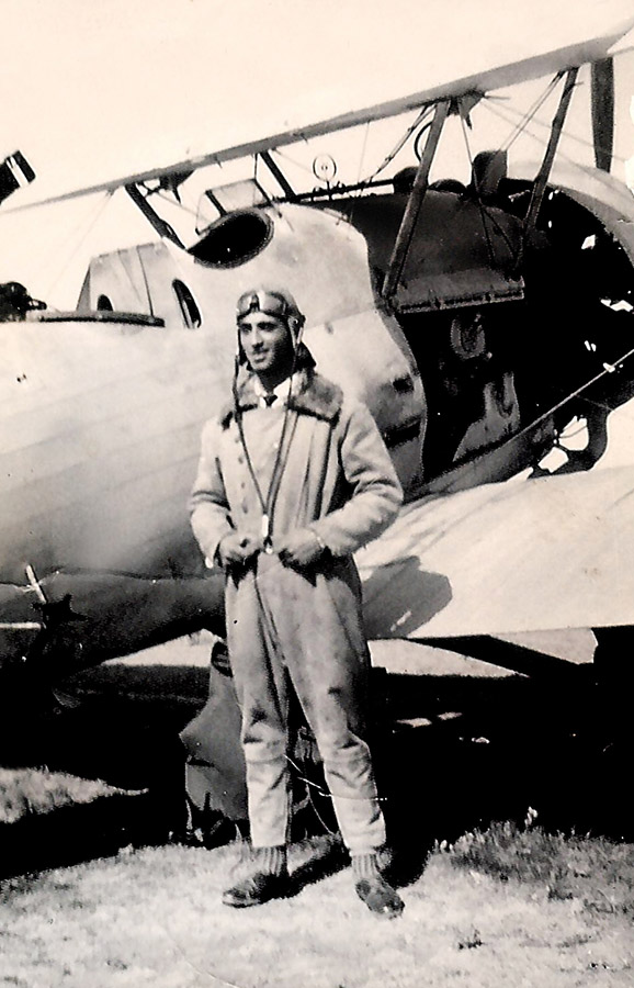 Mostafa Yaftabadi one of the first Iranian pilots